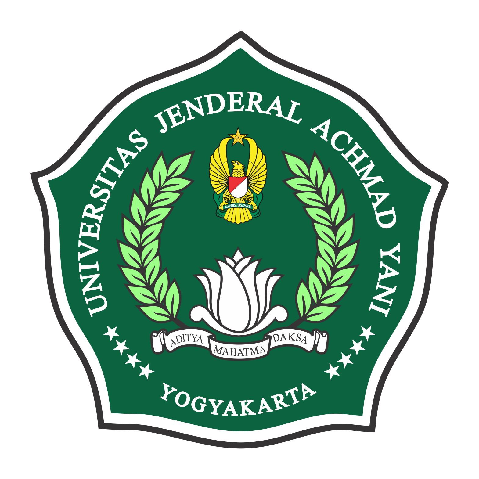 Universitas Jenderal Achmad Yani Yogyakarta